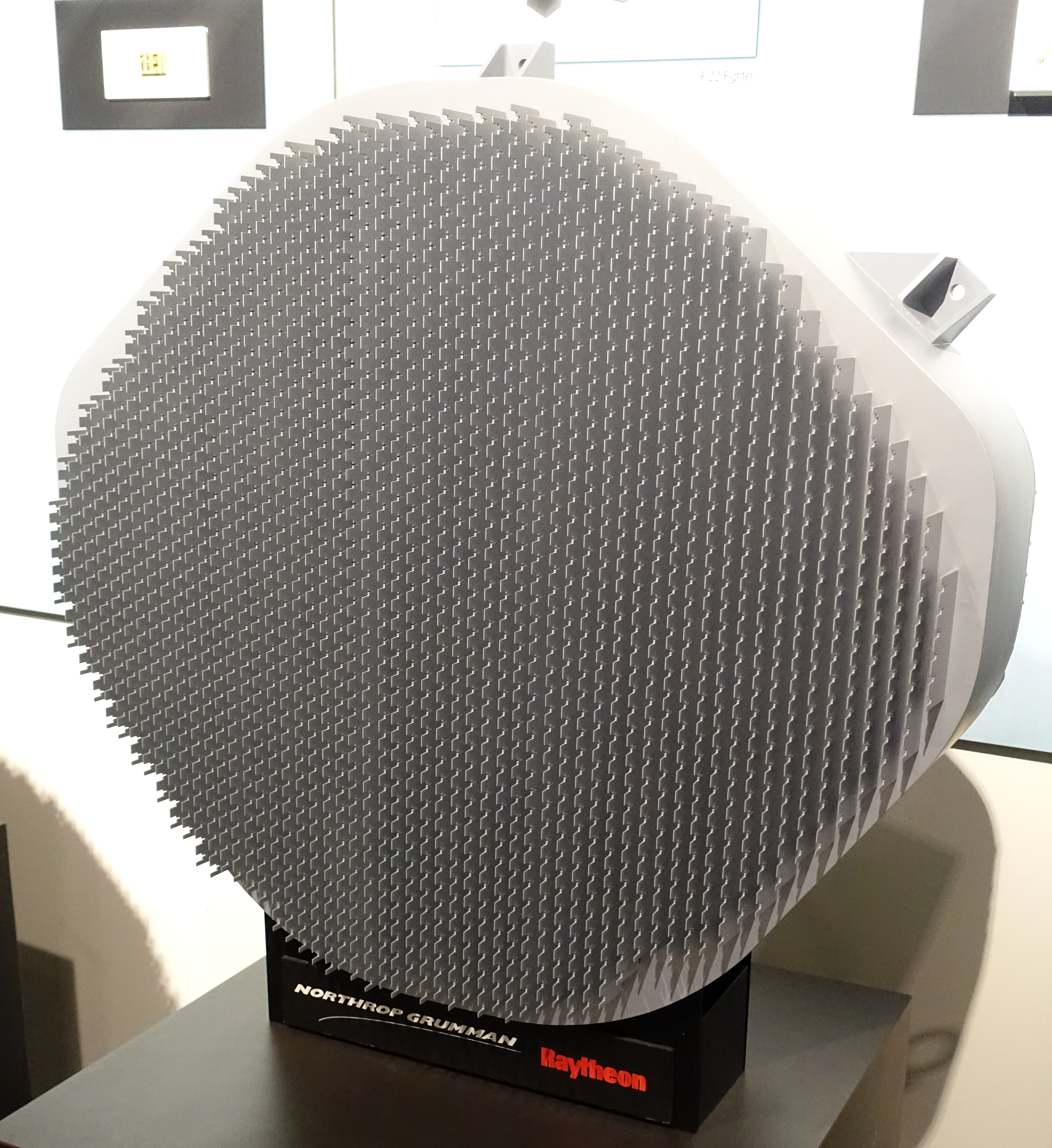 Exhibit in the National Electronics Museum, 1745 West Nursery Road, Linthicum, Maryland, USA. All items in this museum are unclassified. The museum permitted photography without restriction.